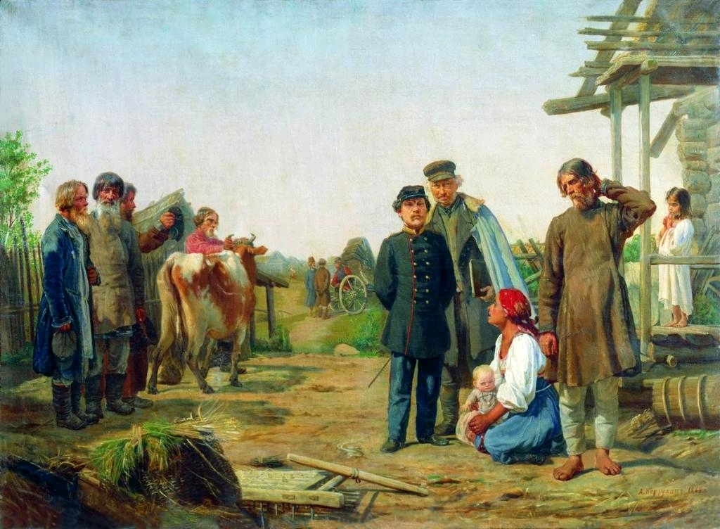 Alexey Korzukhin (1835-1894) Collecting Arrears